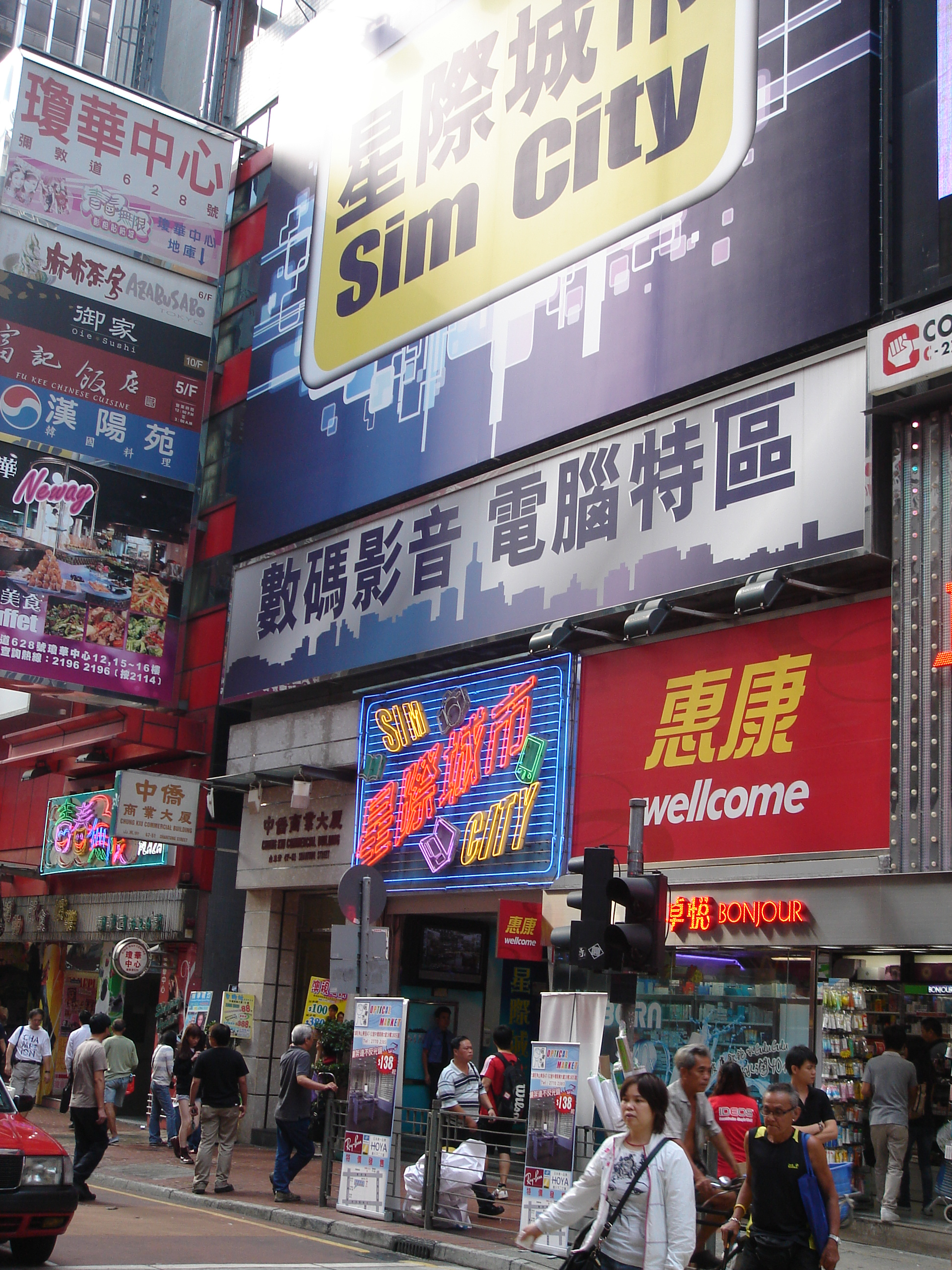 Sim City, 47-51 Shantung Street, Mong Kok, Kowloon, Hong Kong